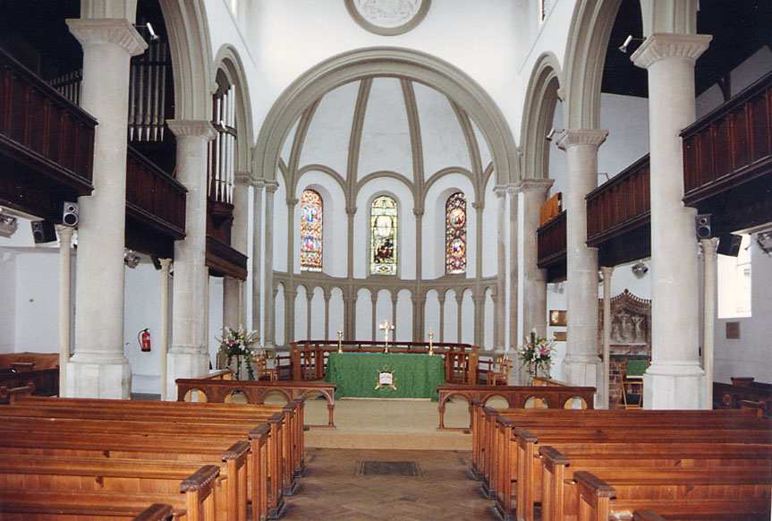 St Paul, Honiton, Devon - East end